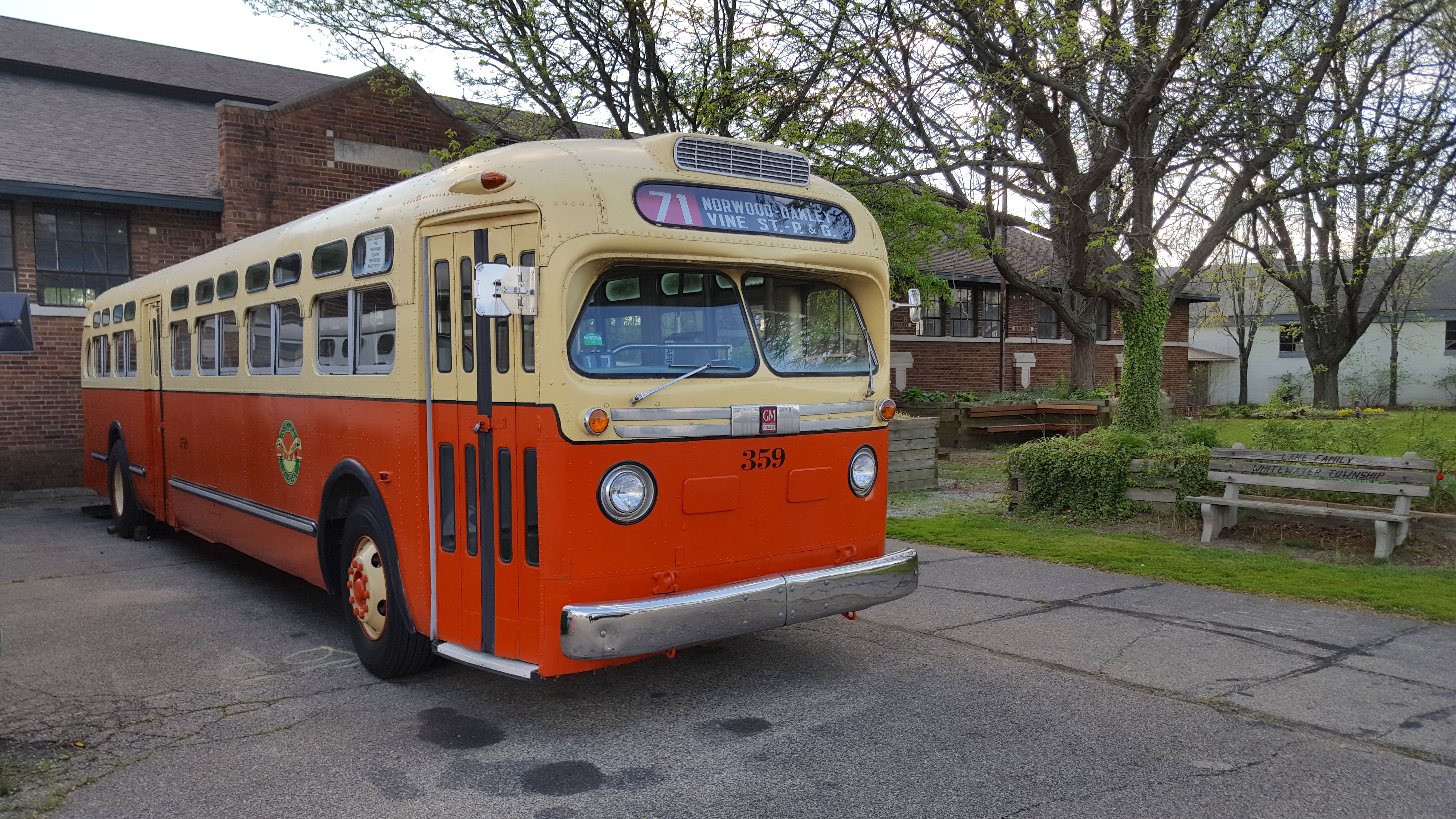 Ex-TANK (Transit Authority of Northern Kentucky) bus 815, a 1957 GM TDH-5105, has been preserved and restored by the Cincinnati Transit Historical Assocation and repainted as Cincinnati Transit 359. The bus was originally Kansas City Public Service Company No. 182.